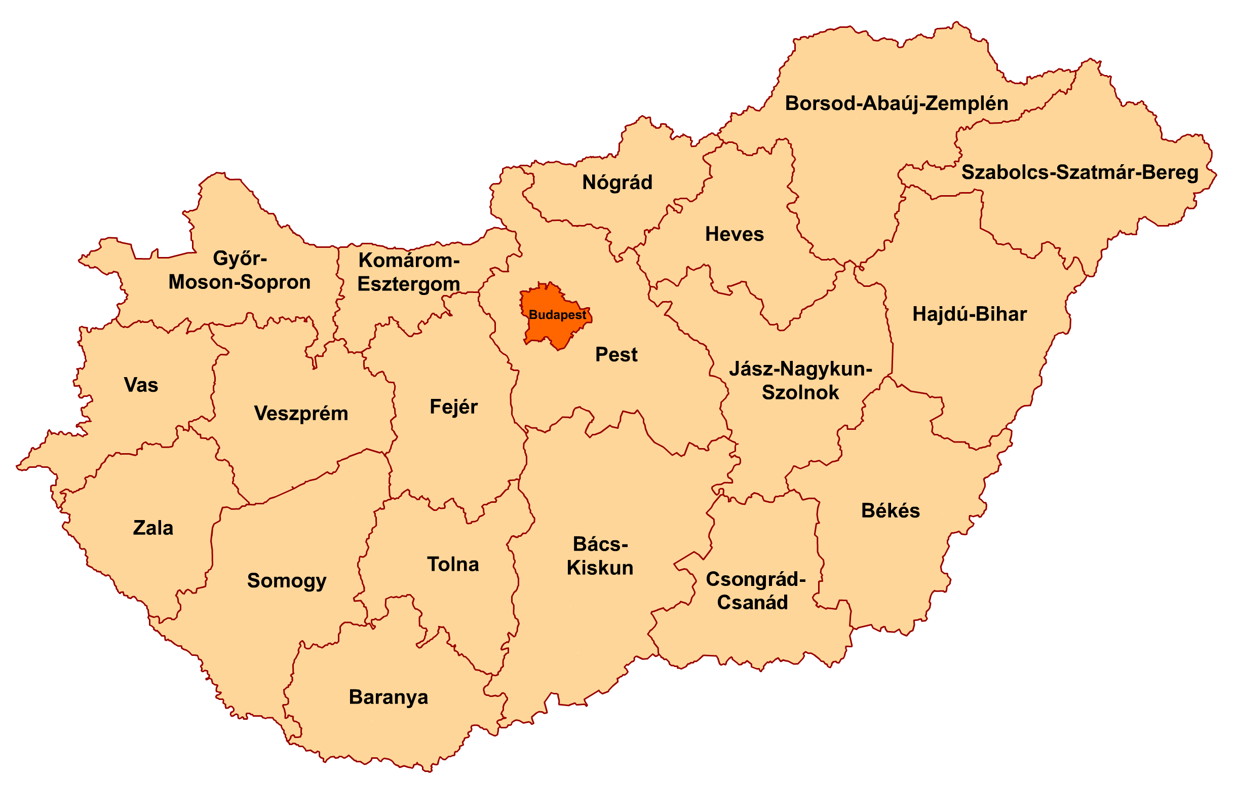 Counties of Hungary (2020)